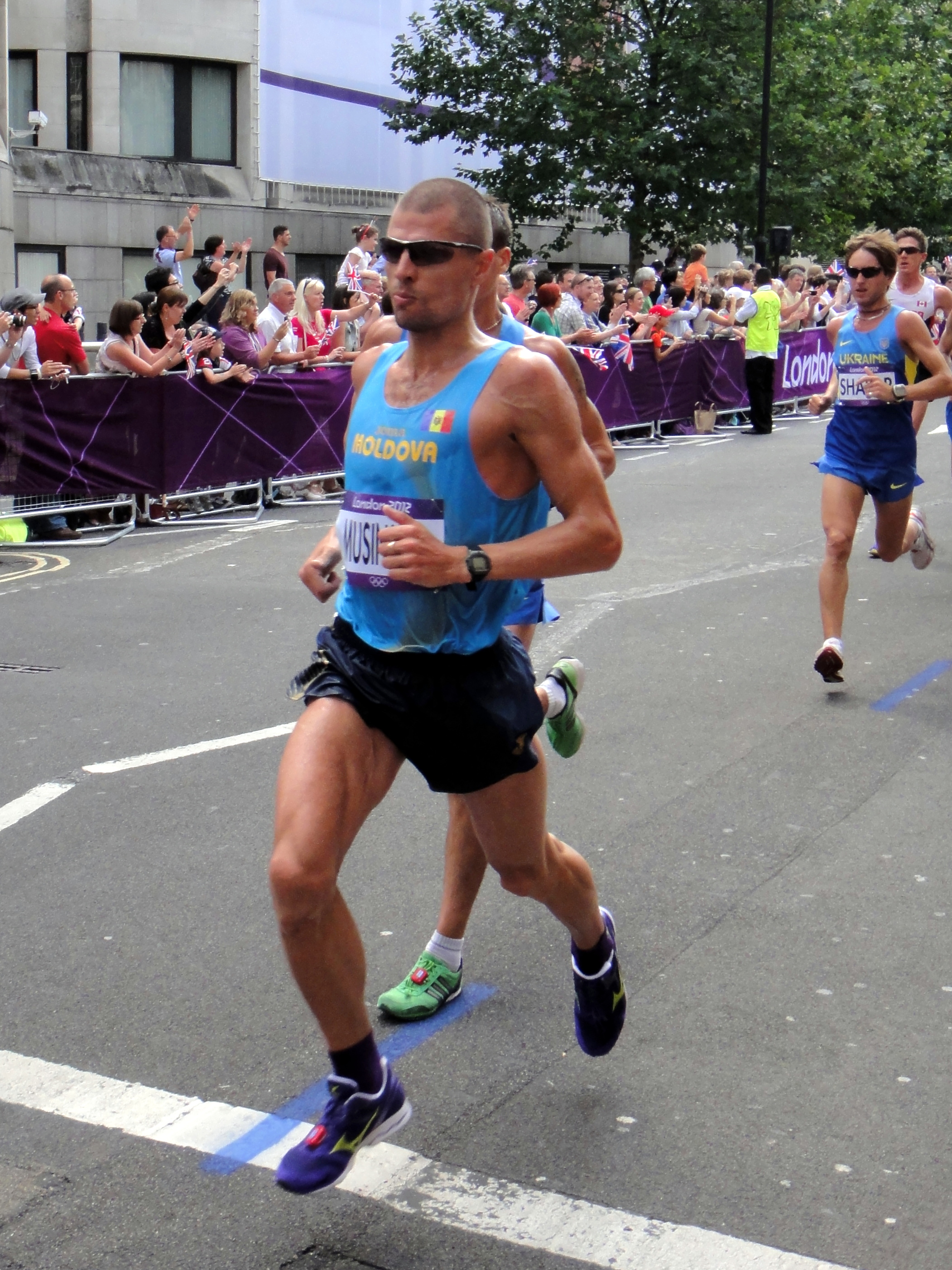 Iaroslav Musinschi (Republic of Moldova) - London 2012 Men's Marathon